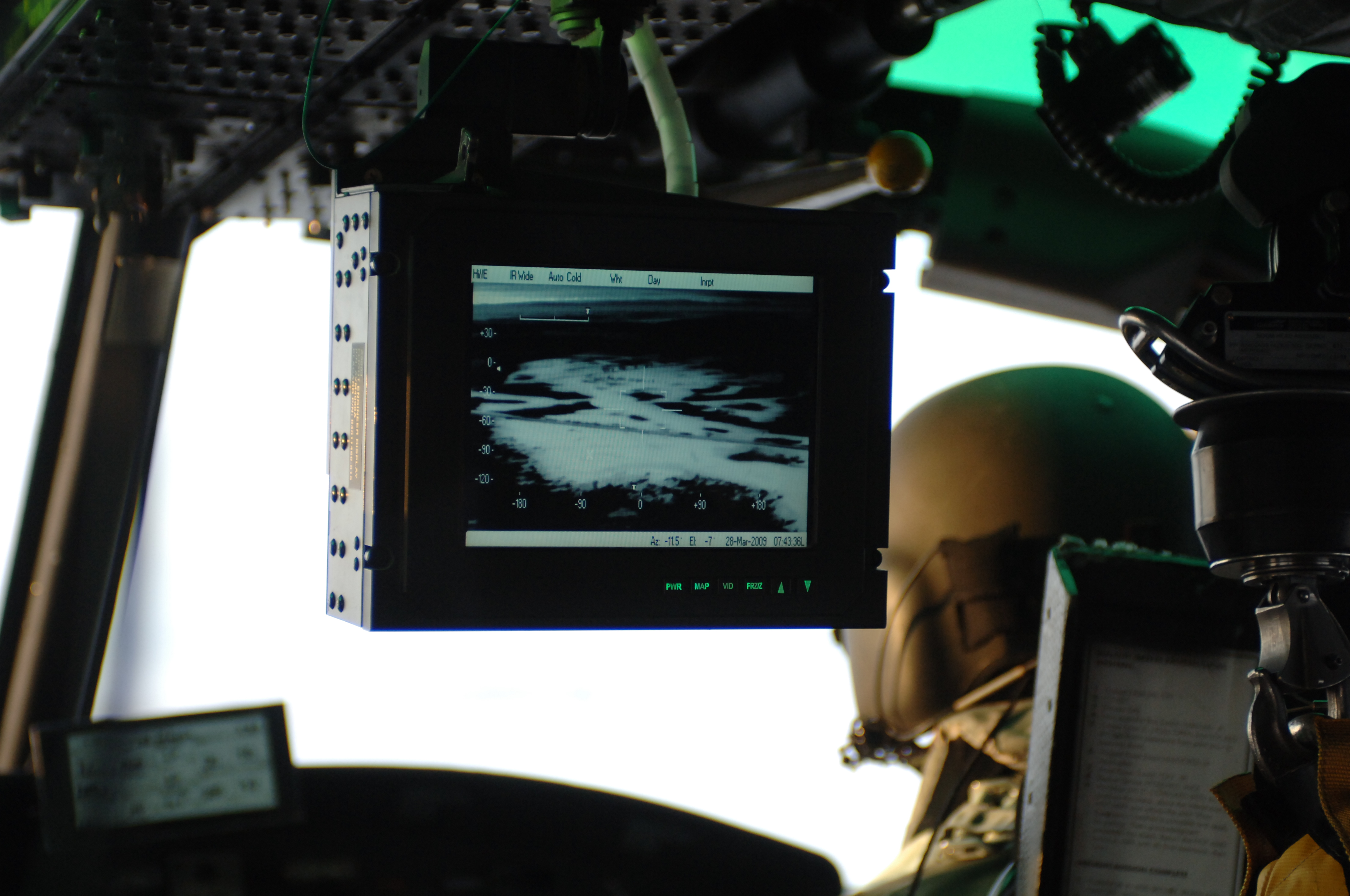 Aboard a UH-1N "Huey." One of our crews from the 54th Helicopter Squadron at Minot Air Force Base was surveying the area in preparation for any needed search and rescue missions on the Red River. The F.L.I.R, or Forward Looking Infrared system, is just one of the many tools that our two crews use to facilitate search and rescue operations. The system can detect body heat from flood victims that are not easily seen, making the search missions more effective. - 54th Helicopter Squadron, Minot AFB, March 28, 2009.